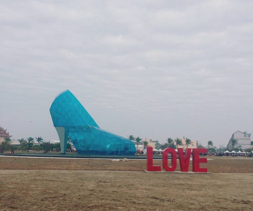 High-Heel Wedding Church in Chiayi, Taiwan